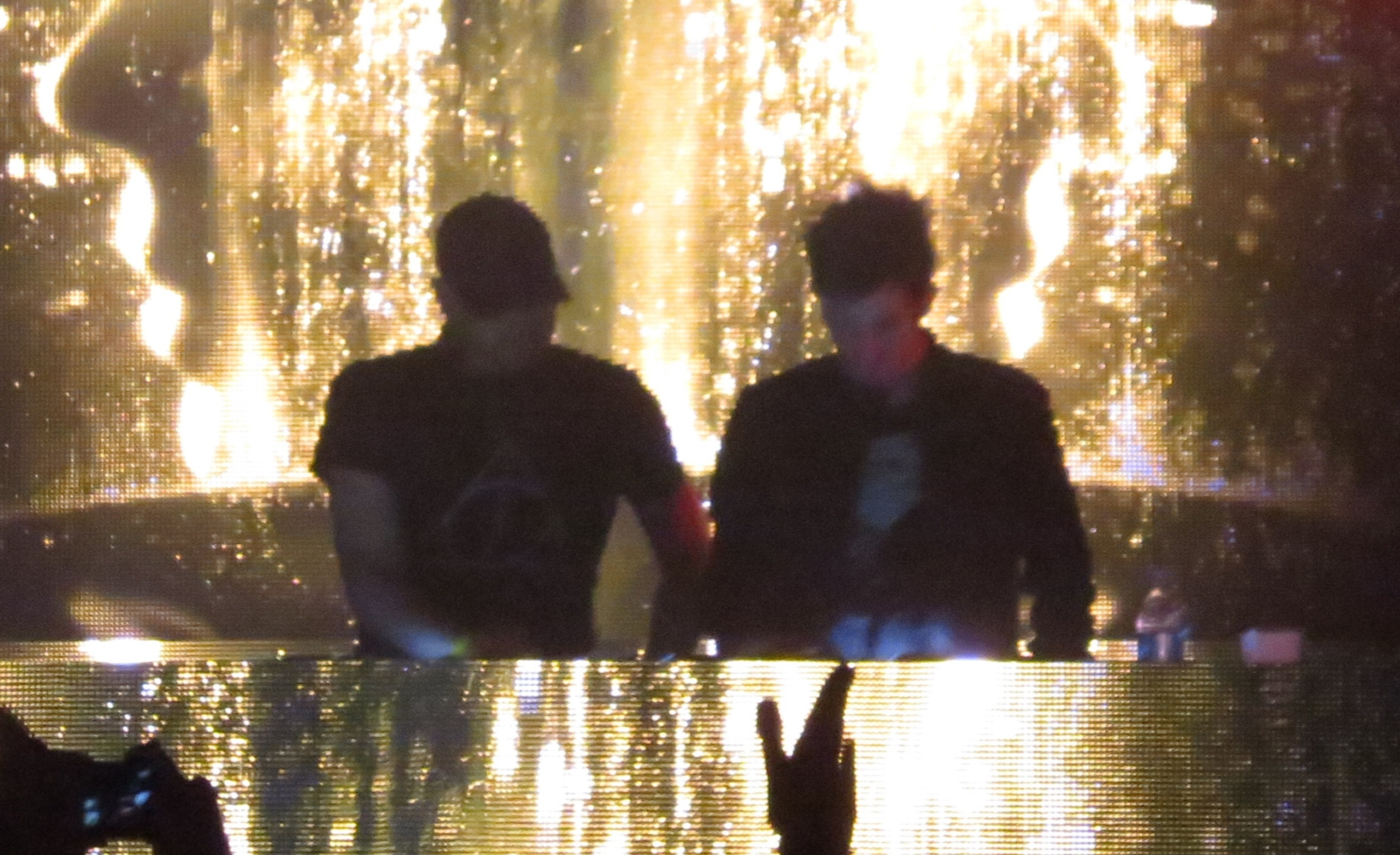 Knife Party playing live at Concord, Chicago